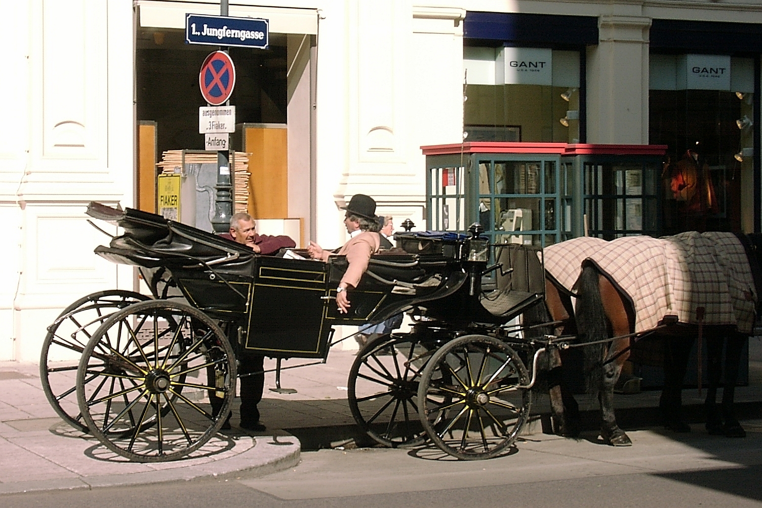 Resting Fiaker coachmen in Vienna, Austria